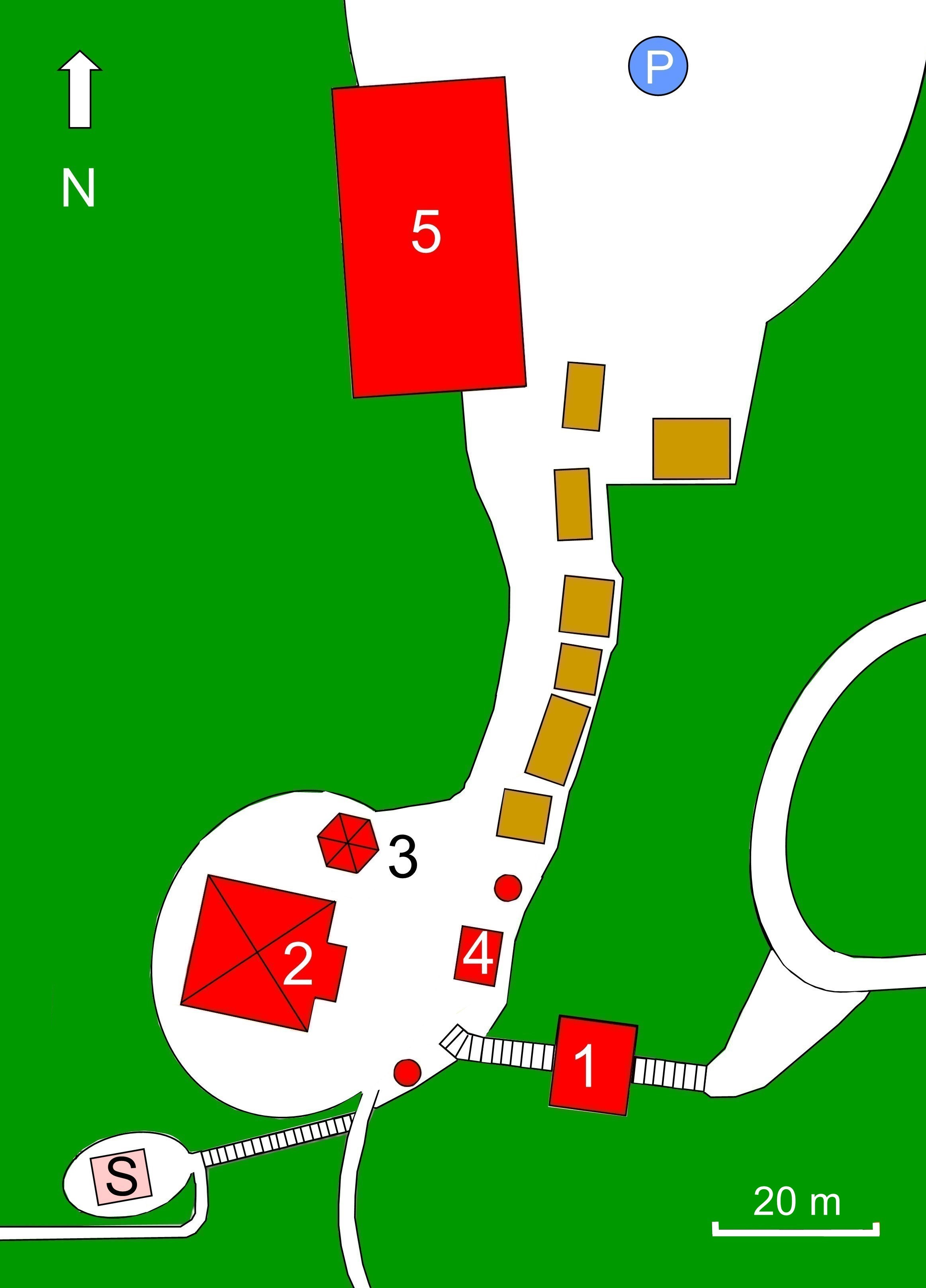 Layour of Mizusawa-dera at Shibukawa, Gumma prefecture, Japan